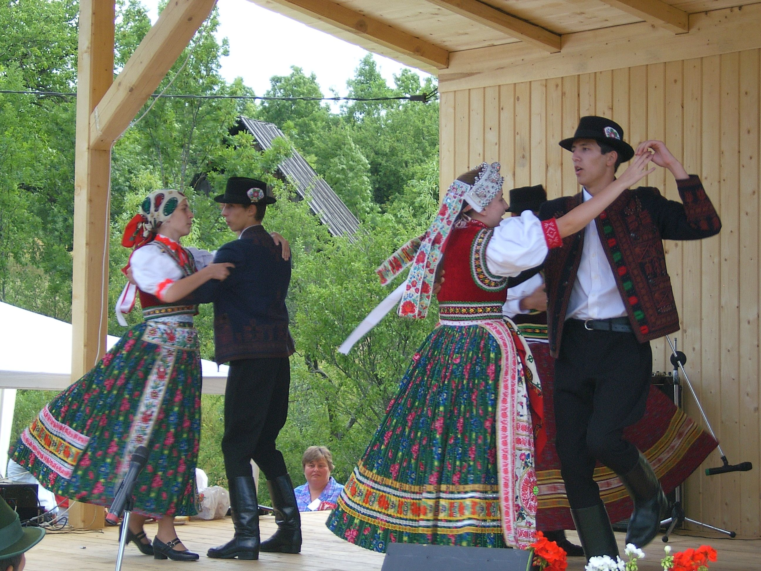 Dancing young Hungarians at the "Valkó Days" festival, Văleni, Transylvania